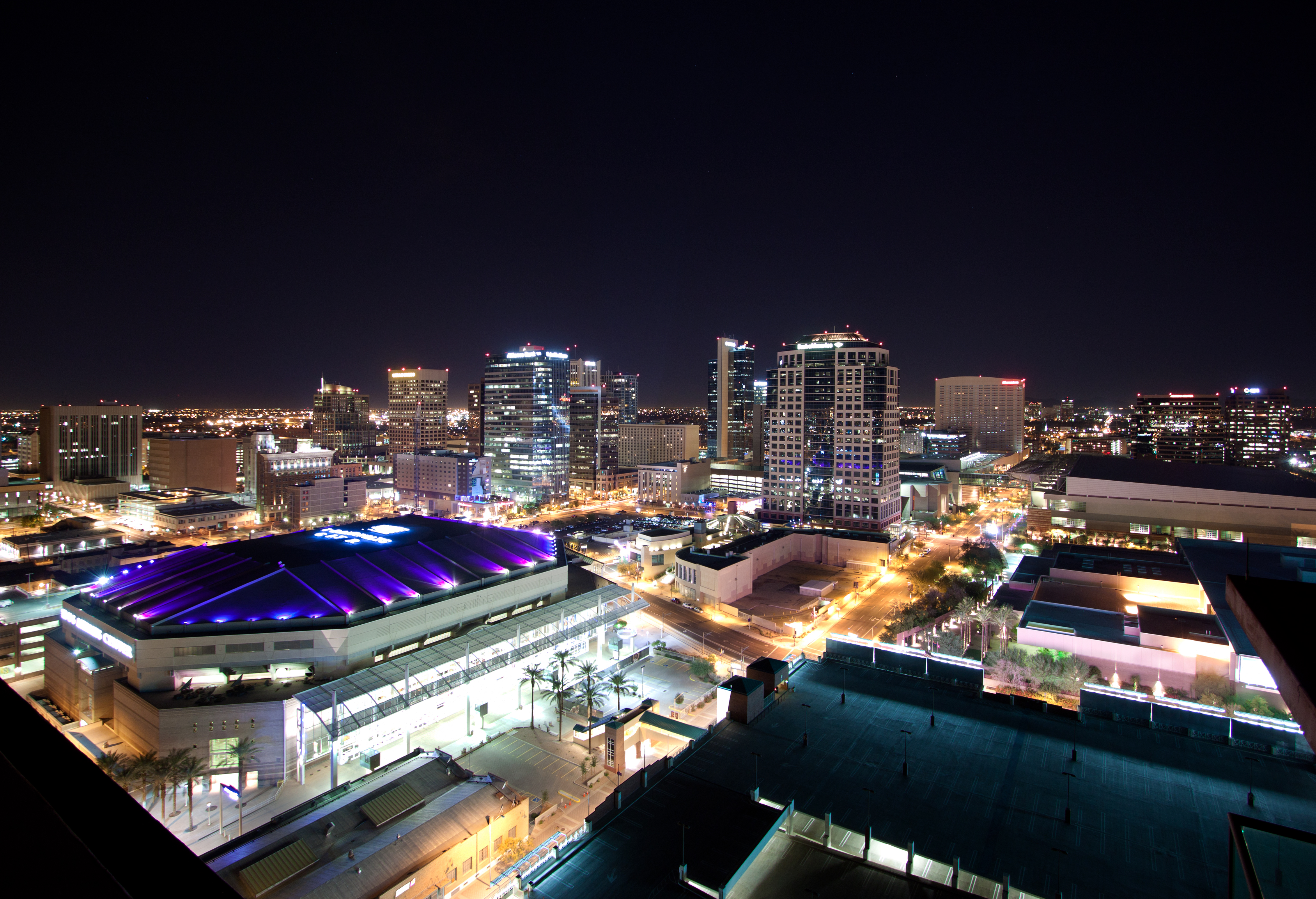 Downtown Phoenix, Arizona skyline at night as seen from on top of the Summit at Copper Square condos.